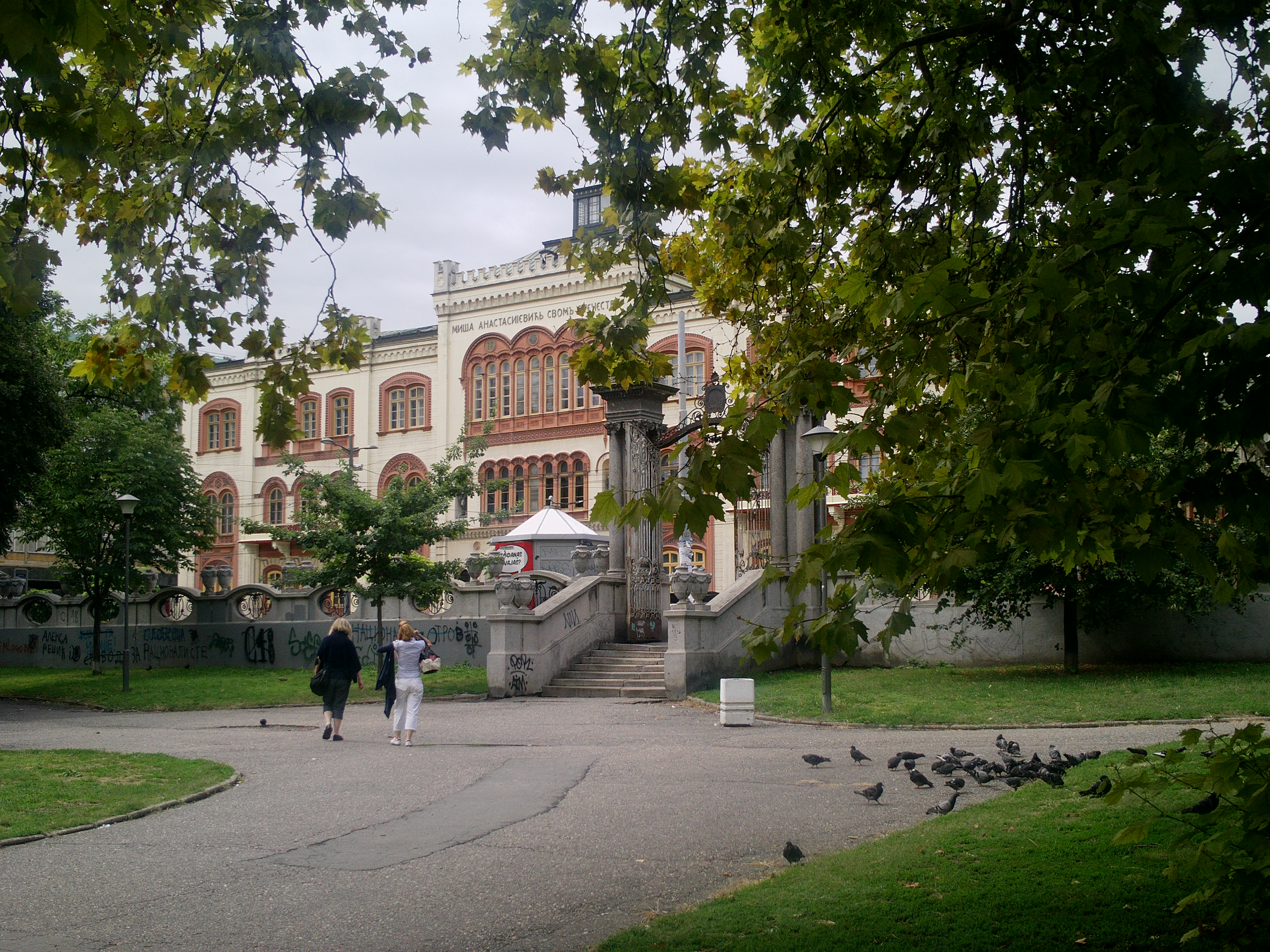 The Belgrade University Rectorate from the Students' Park